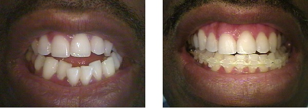 Orthodontic treatment of open bite.